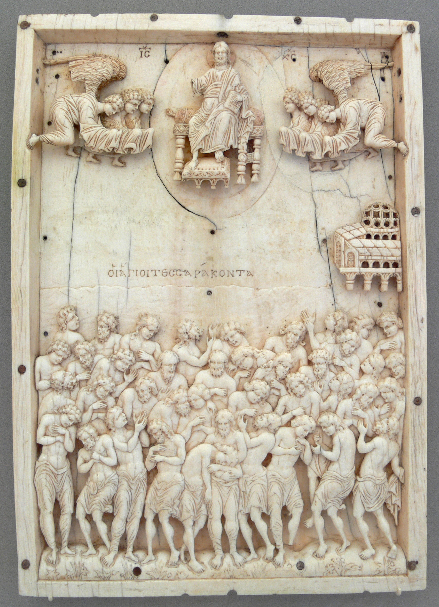 The forty Martyrs of Sebaste; ivory relief panel; Constantinople, 10th century AD. Museum für Byzantinische Kunst (Inv. no. 574; acquired in 1828; Bartoldi collection), Bode-Museum, Berlin.